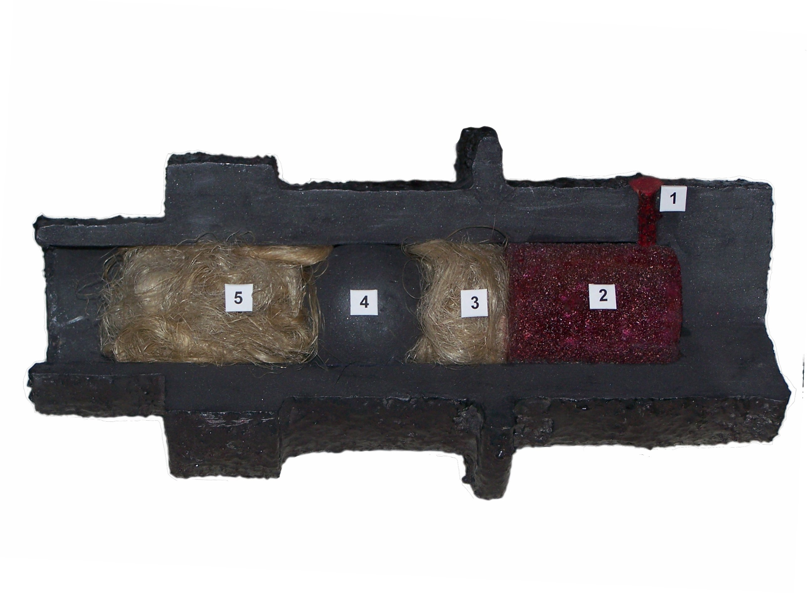 Loaded Muzzleloader. 1. Priming charge; 2. Main propellent charge; 3. Wadding; 4. Projectile; 5. Wadding.